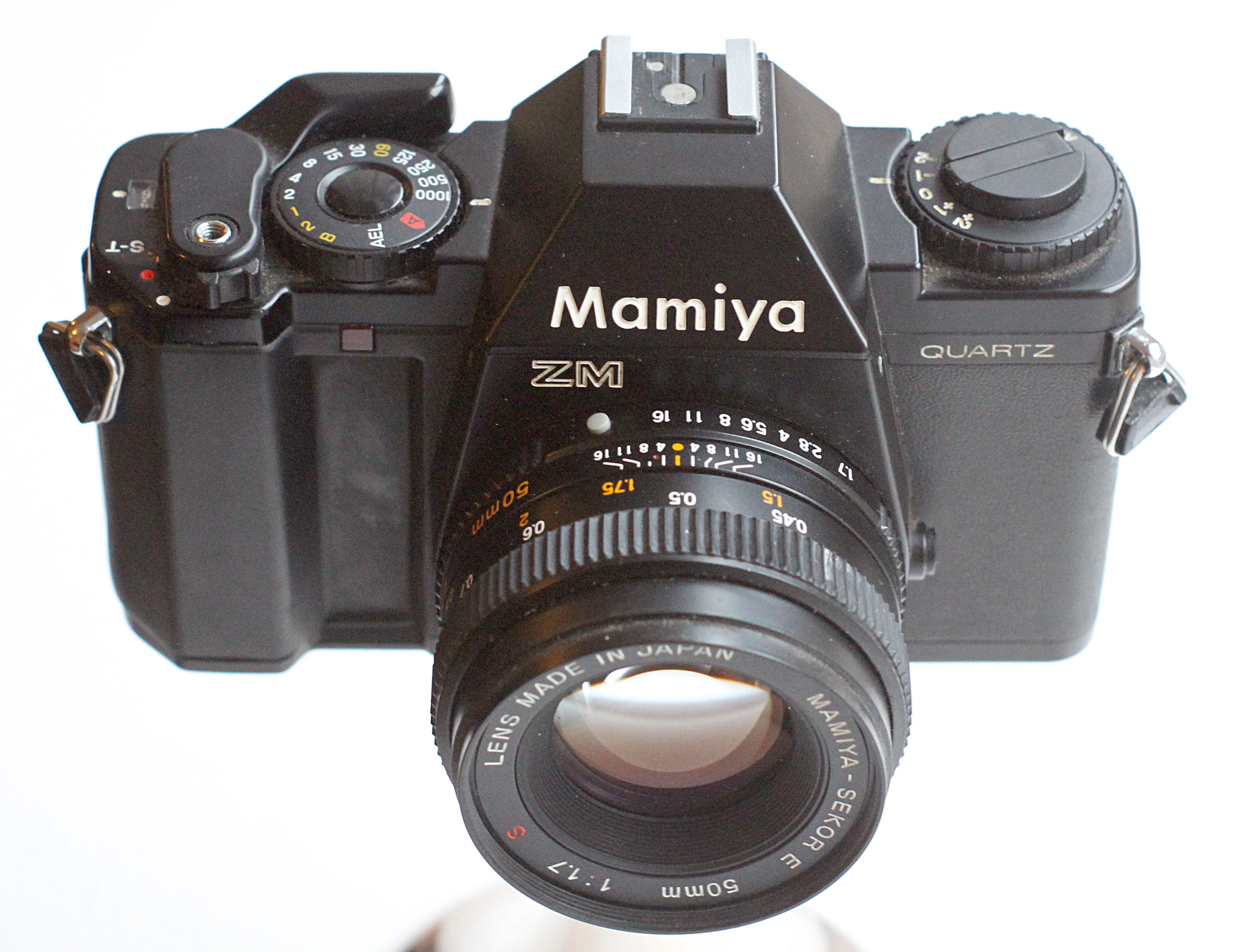 Mamiya ZM camera